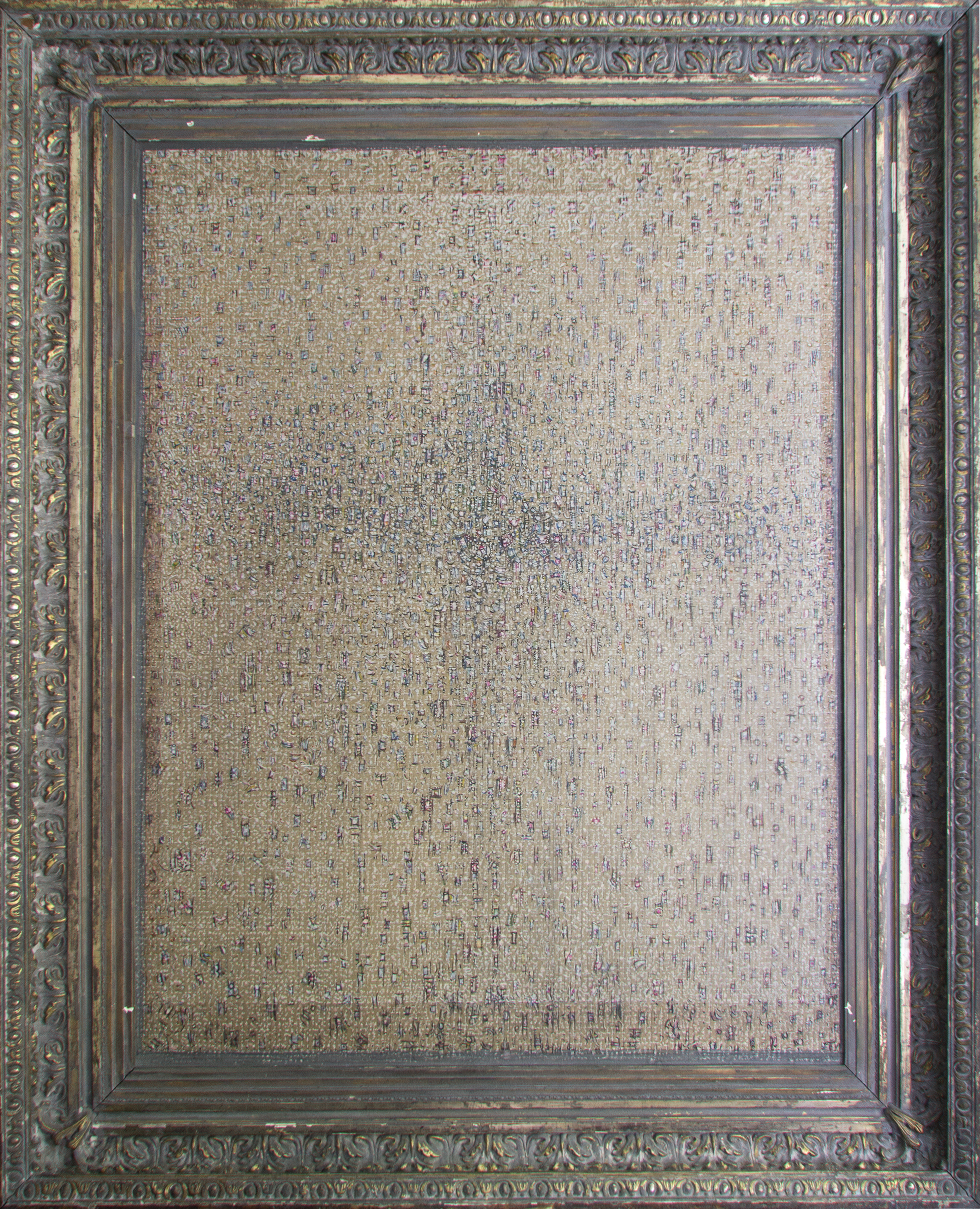 Boguslaw Szwacz - Mozart Ars - Hormegryf (1976), oil, tempera on canvas in XVIII century wooden-gold frame